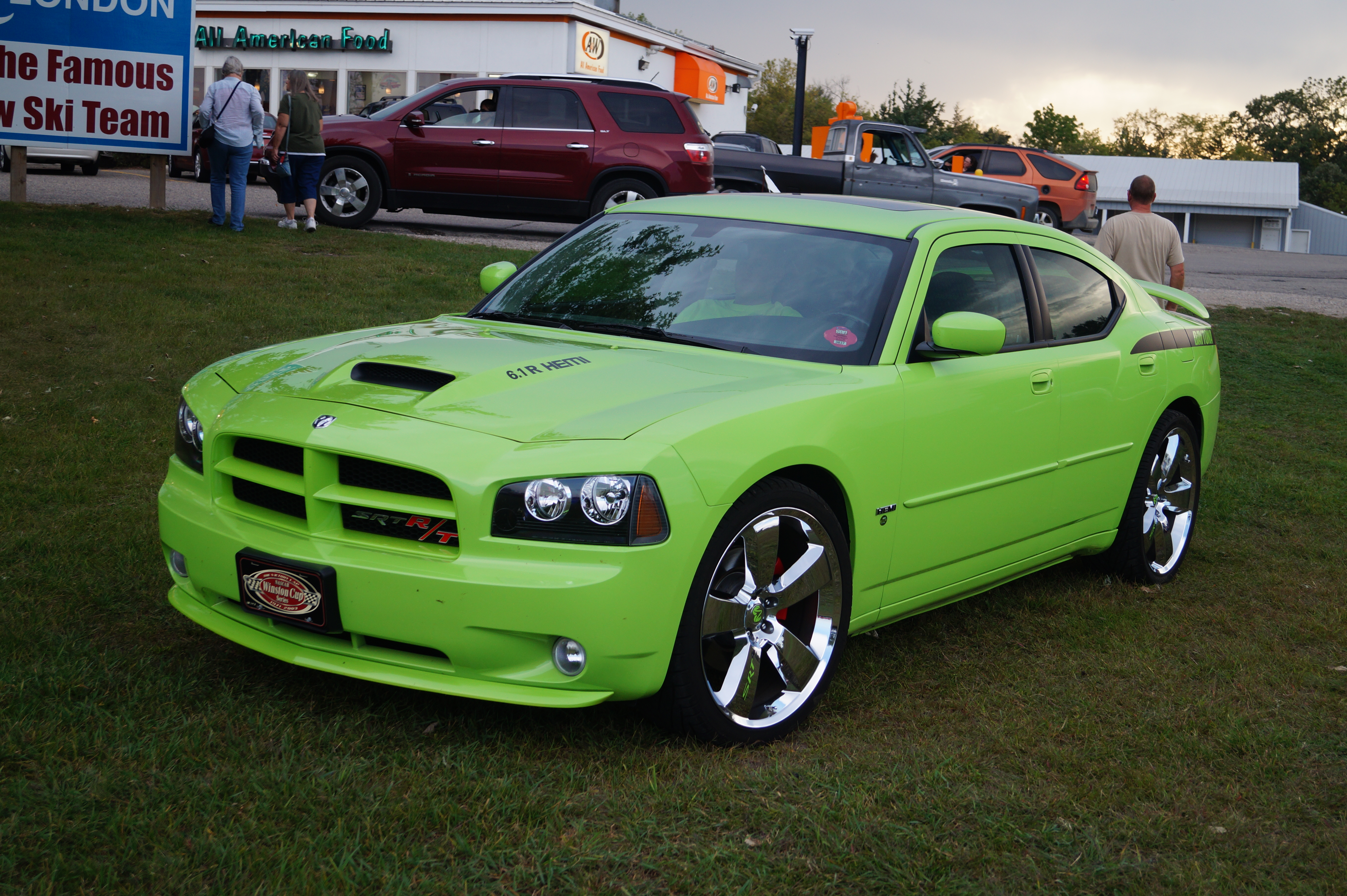 A&W Cruise Night September 2015 A&W Country Stop New London, Minnesota Click here for more car pictures at my Flickr site.